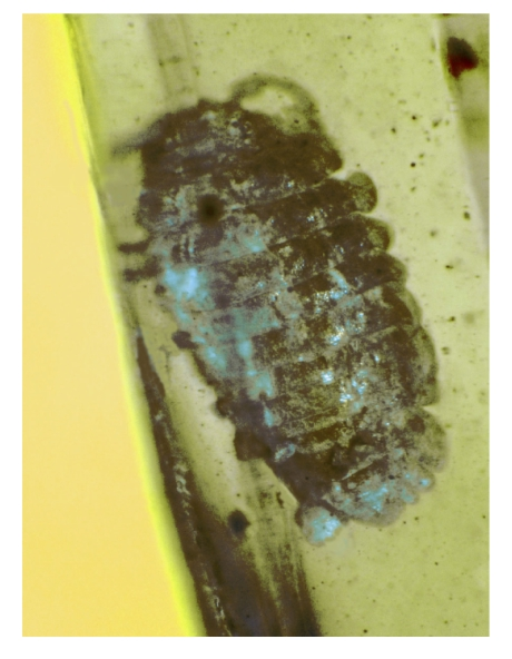 A bluish tinted terrestrial isopod in Early Cretaceous Myanmar amber that could be infected with the isopod iridescent virus.